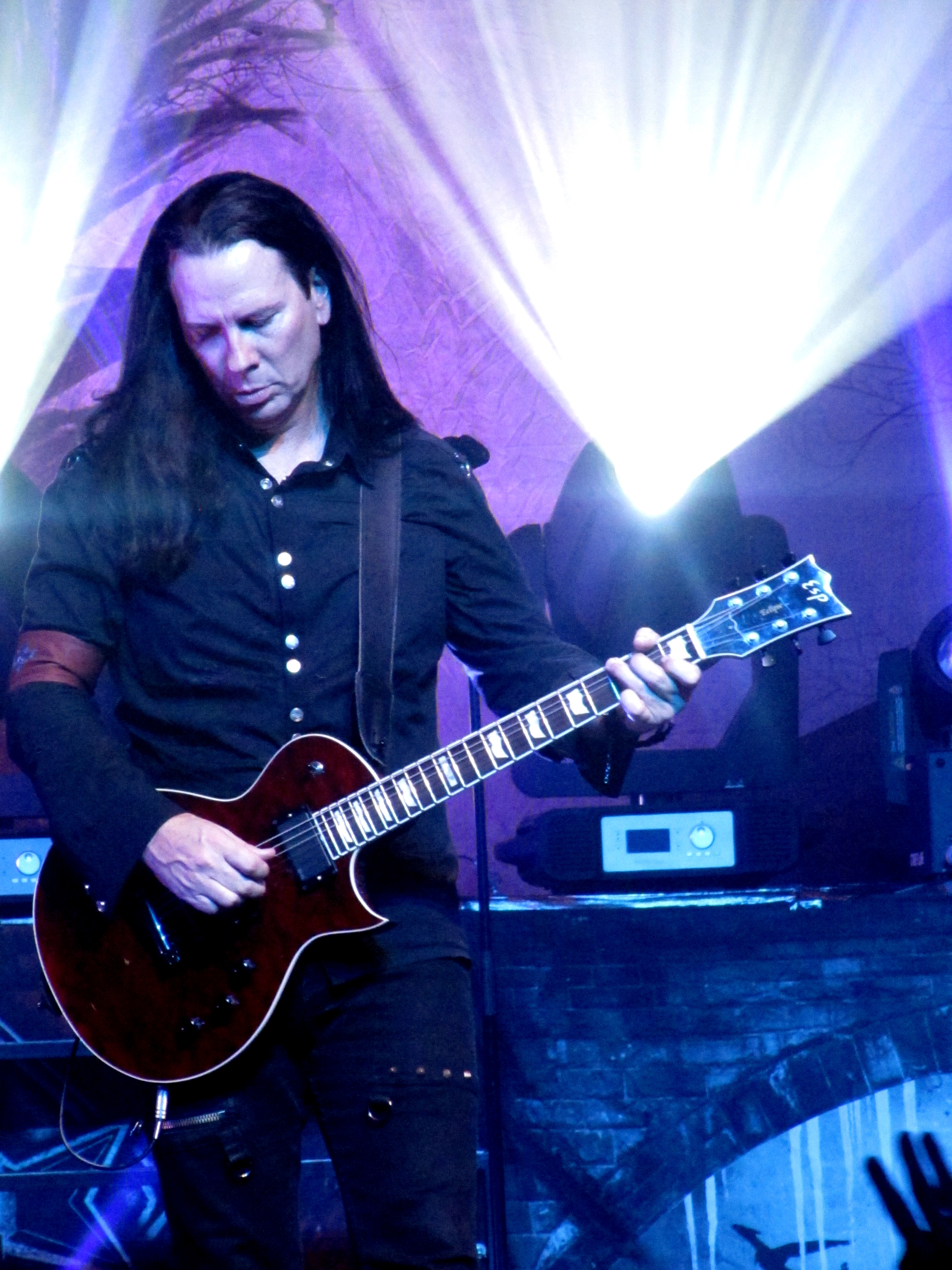 Thomas Youngblood - Tilburg 2013